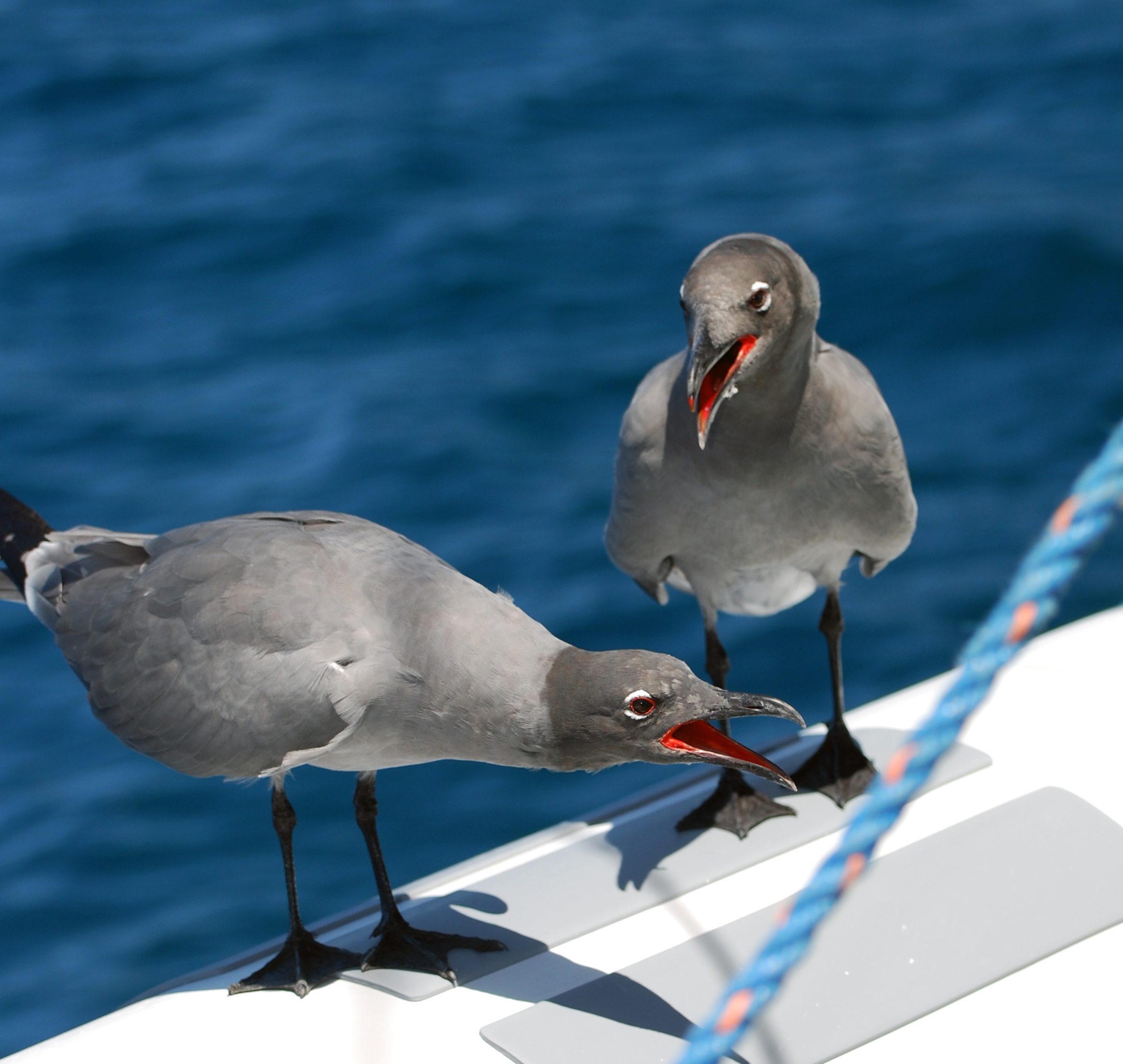 Photo taken in the Galapagos Islands of a Lava Gull (Larus fuliginosus) pair. June 2007, Photo by Peter Kruger, Galapagos.